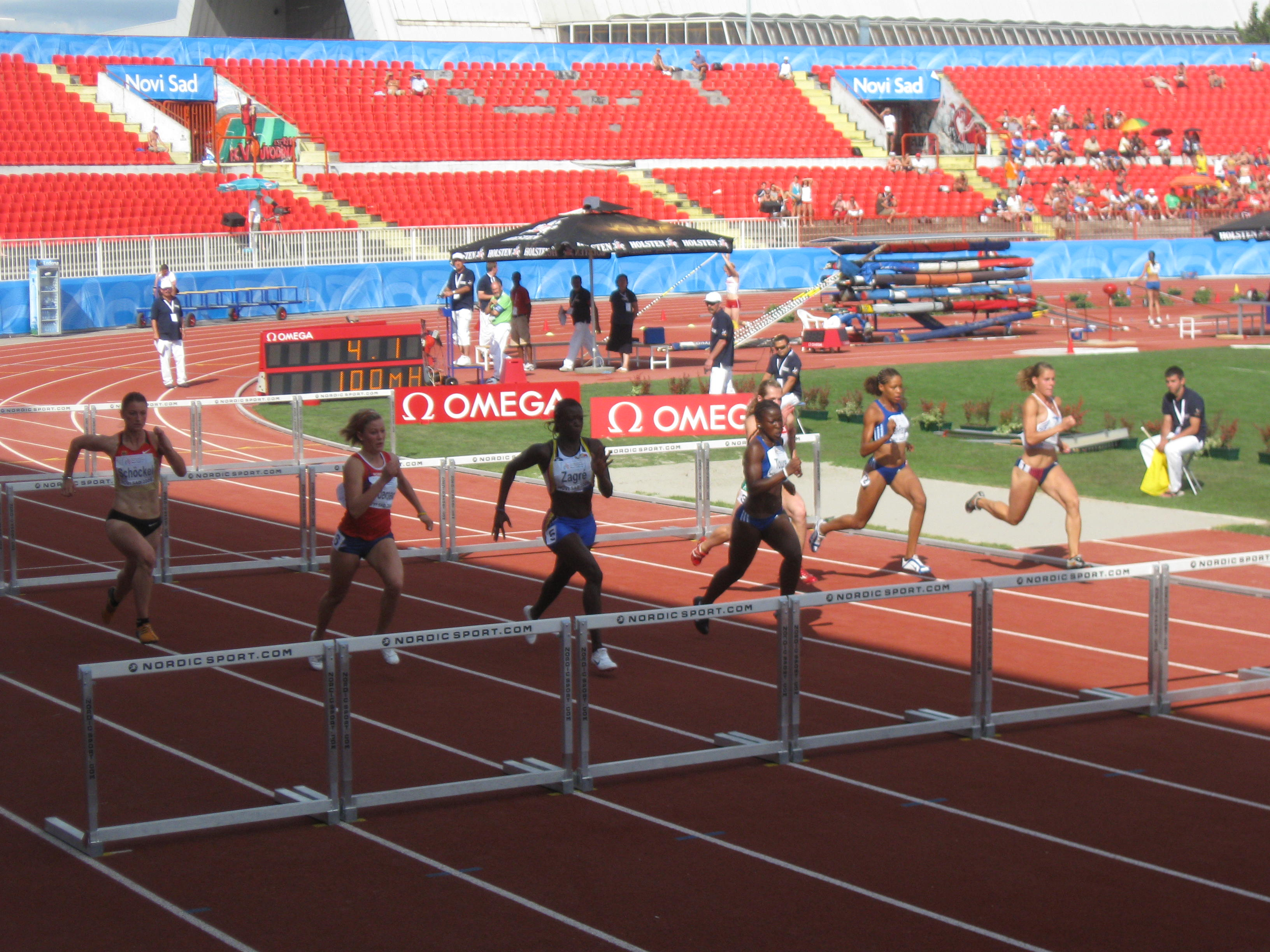 110 m hurdles (W) at the 2009 European Athletics Junior Championships in Novi Sad. Carina Schöckel (GER), Isabelle Pedersen (NOR), Anne Zagré (BEL), Yariatou Touré (FRA)